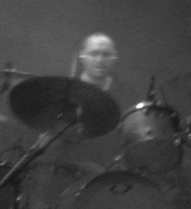 Pete Salisbury on stage with The Verve at Summercase 2008 in Madrid, Spain.